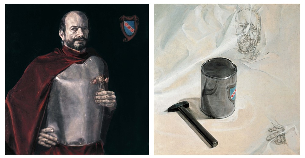 Three roses yesterday - three roses today. Oil on canvas, 1977